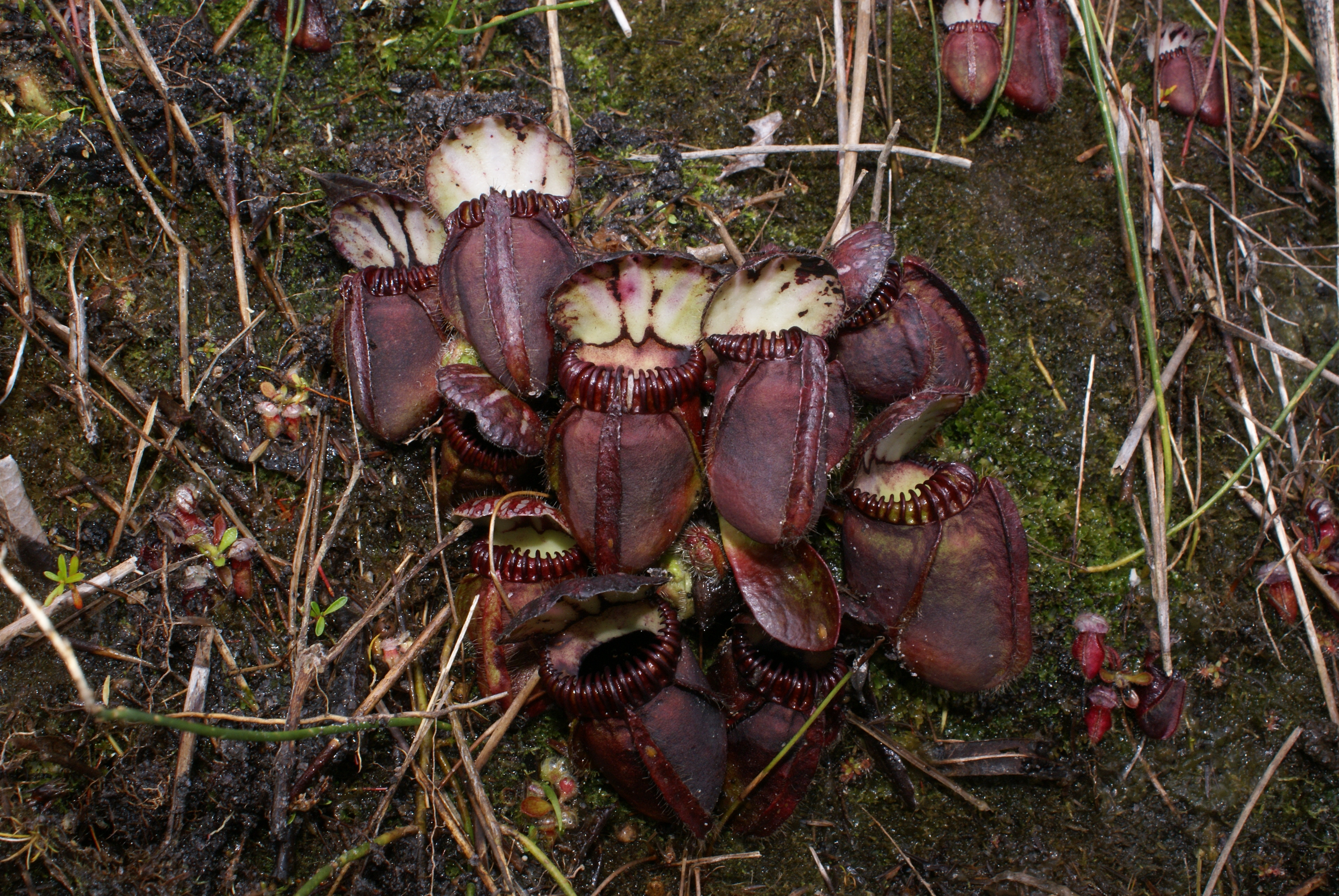 Cephalotus follicularis in situ / SW Australia Coast